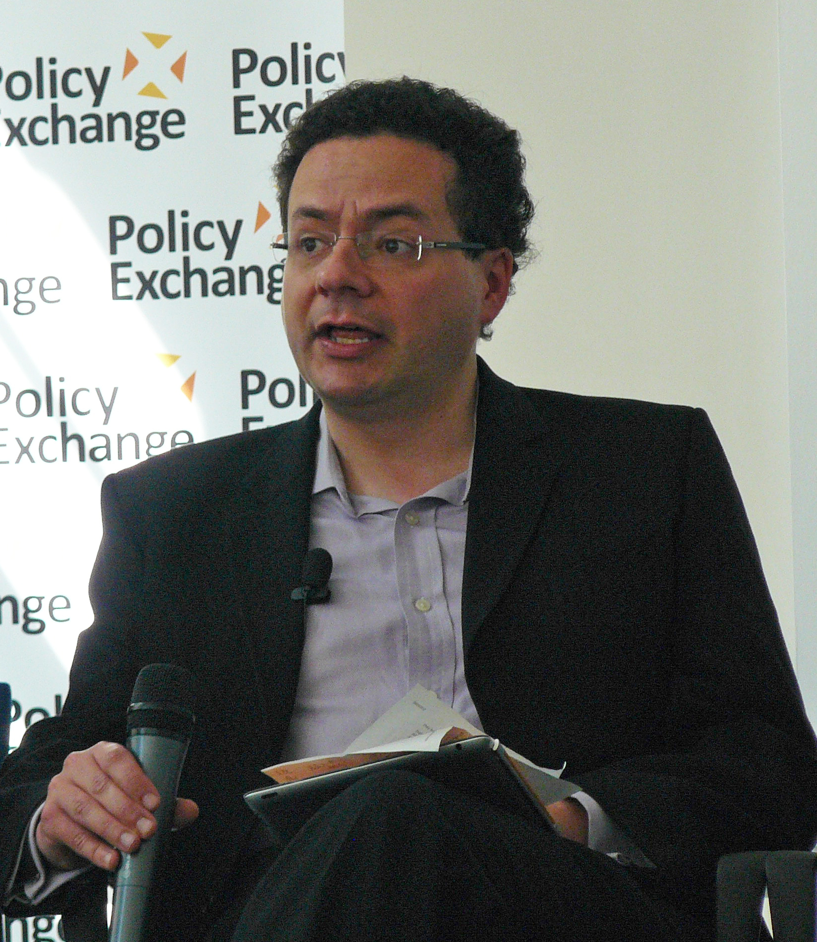 Liberal Democrat Mark Pack speaking at the launch of PX report 'Northern Lights'